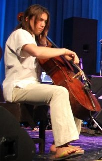 Alexey Poltavchenko, cellist of Flëur